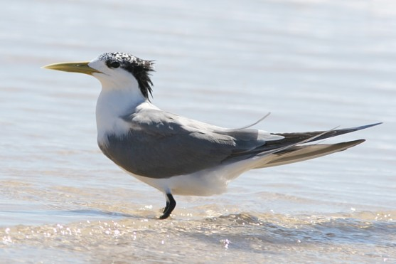 Crested Tern, Thalasseus bergii (Syn. Sterna bergii), non-breeding plumage.